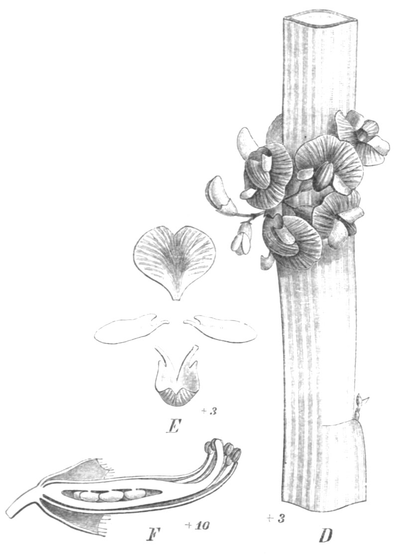 Illustration from book